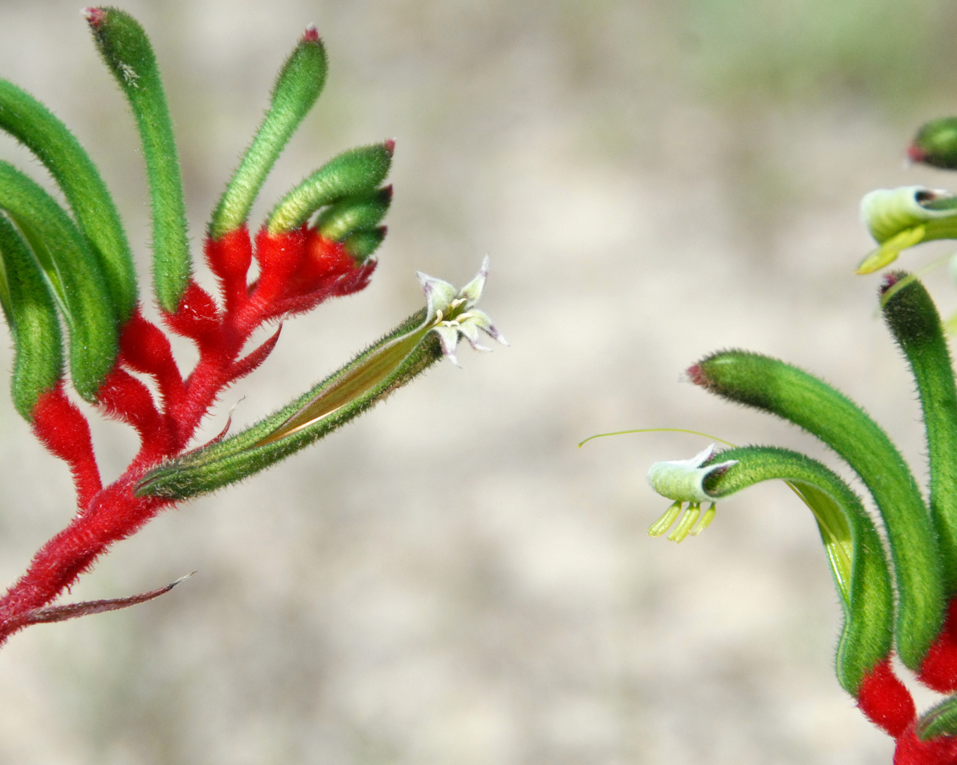 Anigozanthos manglesii photographed near a shopping centre in Eaton, Western Australia. No. 2 of three images uploaded